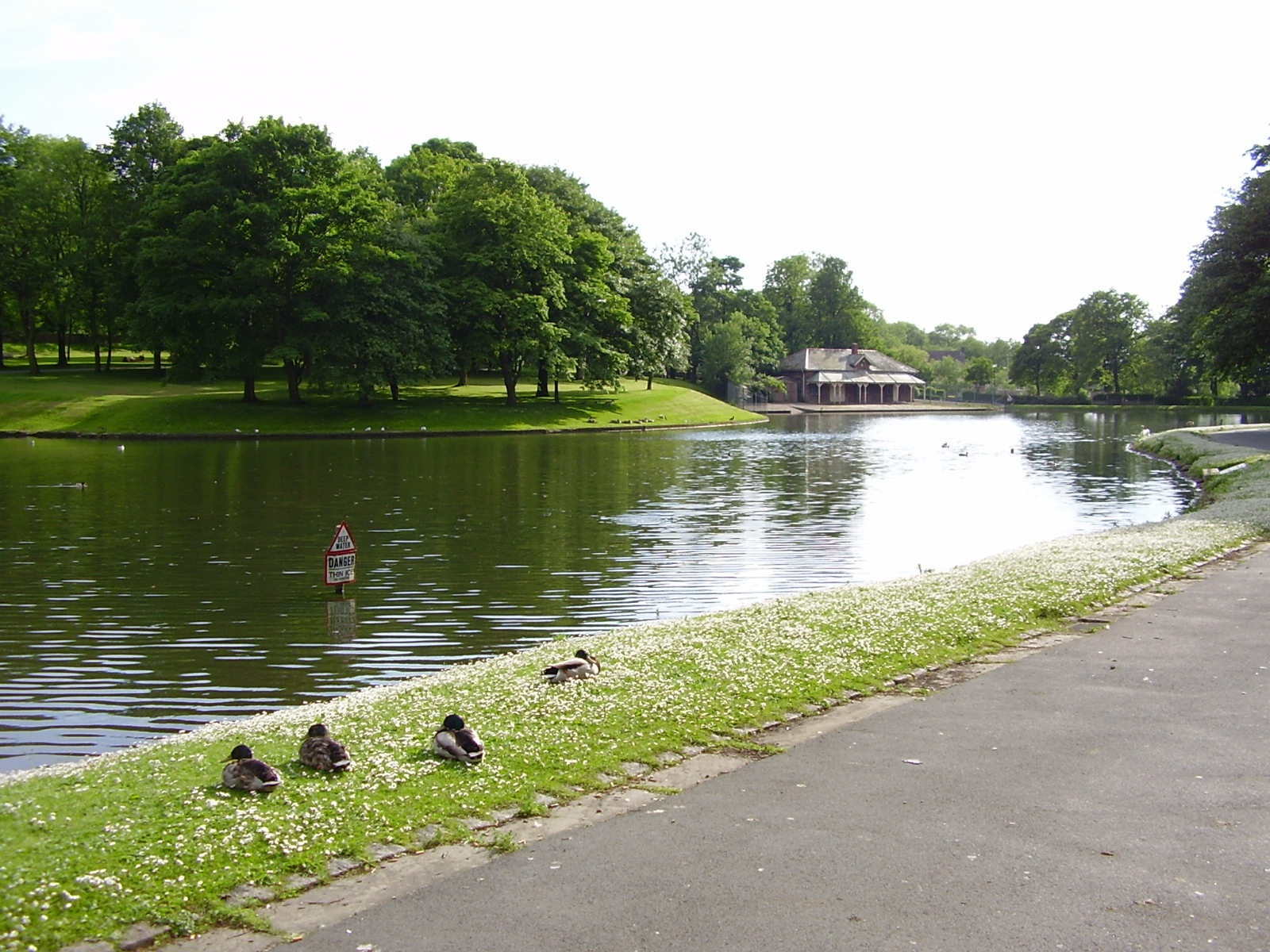 The main lake in Queens Park, Blackburn, Lancashire, England.